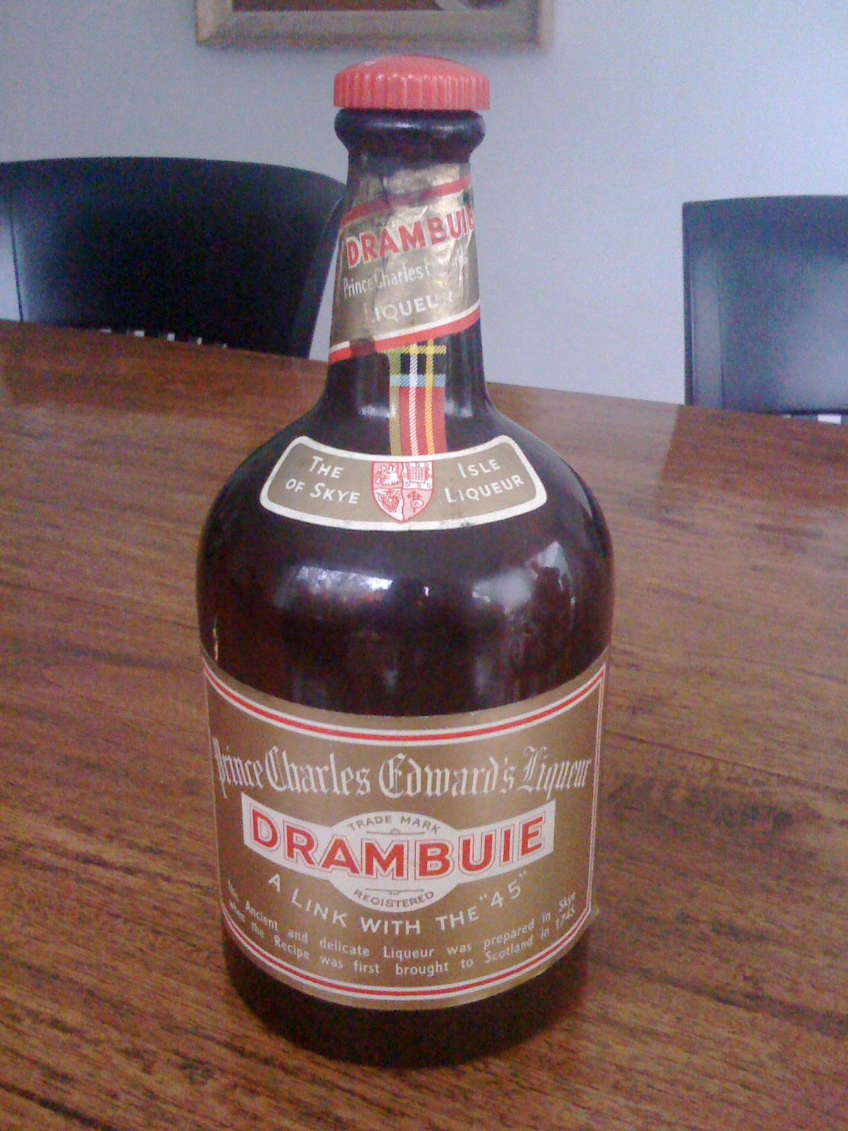 Drambuie Bottle